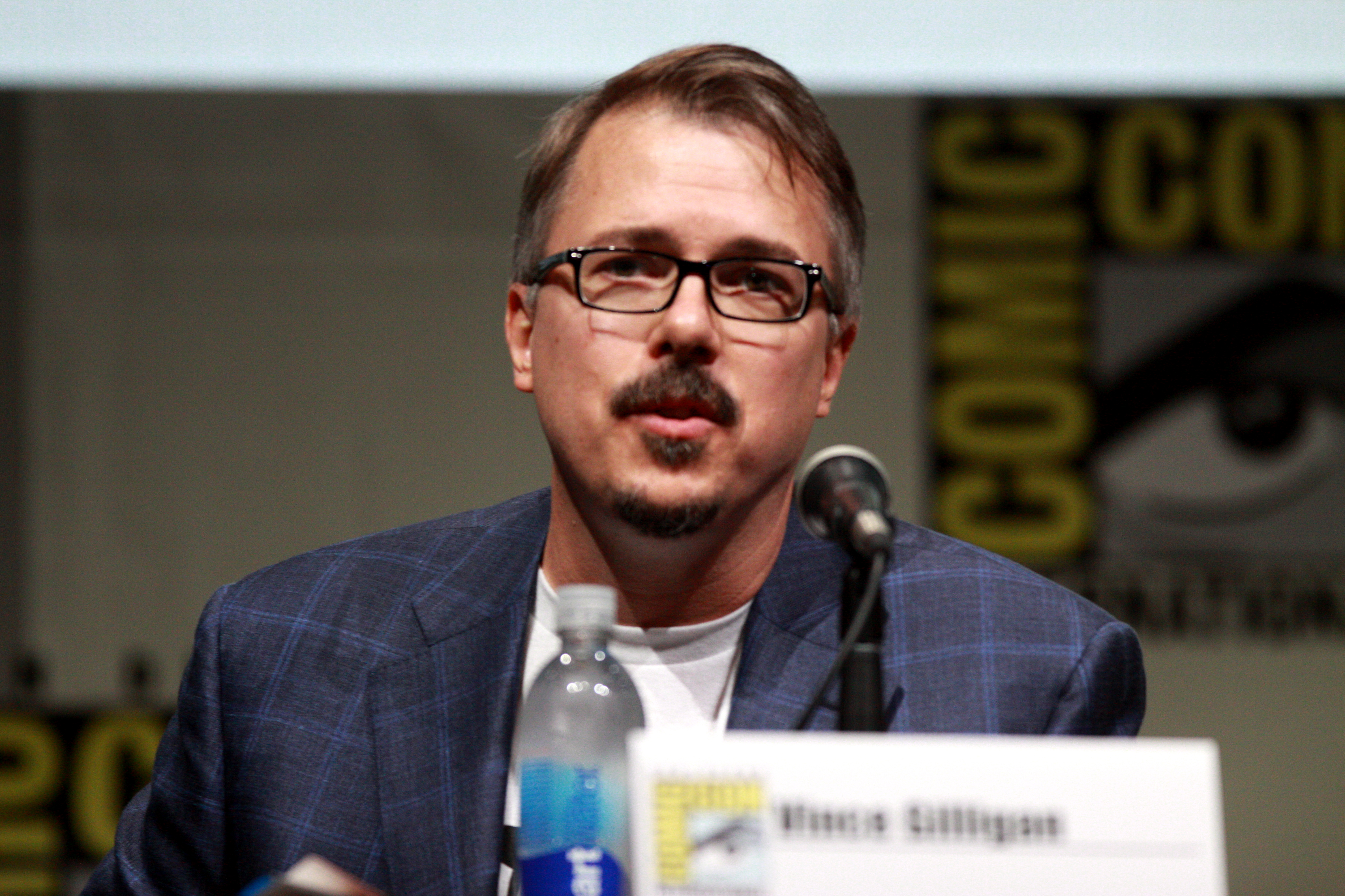 Vince Gilligan speaking at the 2013 San Diego Comic Con International, for "Breaking Bad", at the San Diego Convention Center in San Diego, California.